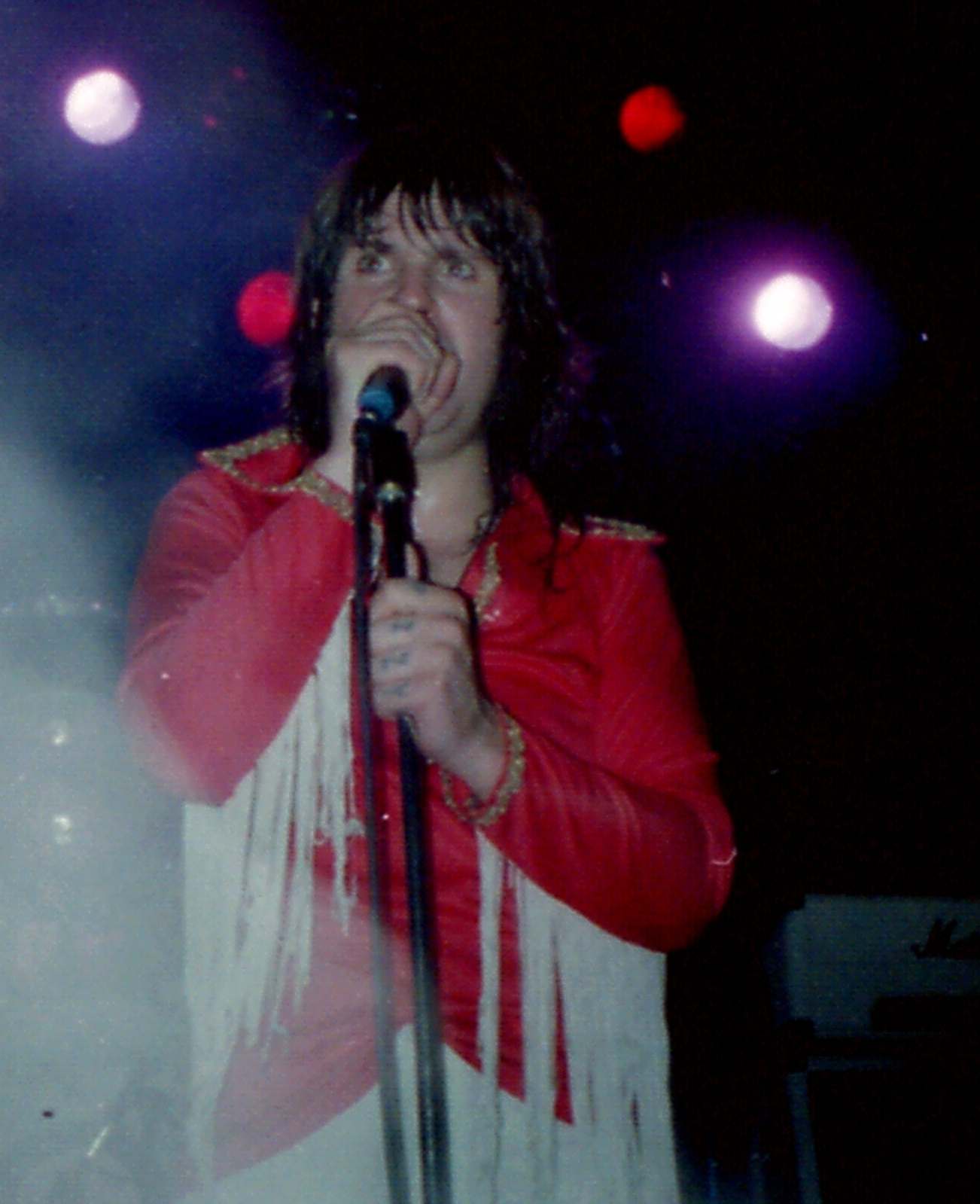 Ozzy Osbourne performing live in Cardiff (1980).